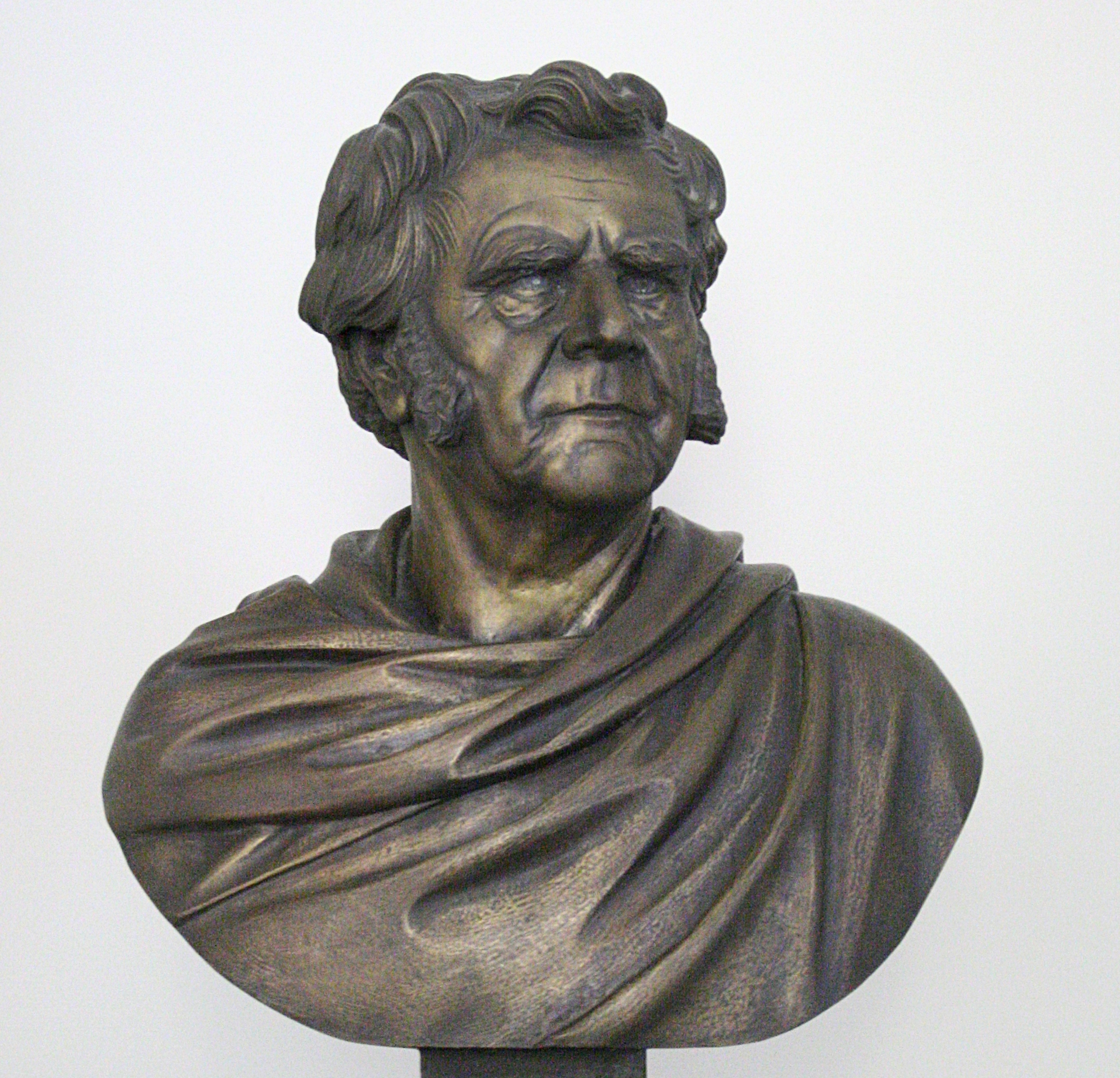 Statue of the Swiss politician and scientist Peter Merian (1795-1883) at the museum for natural history in Basel.